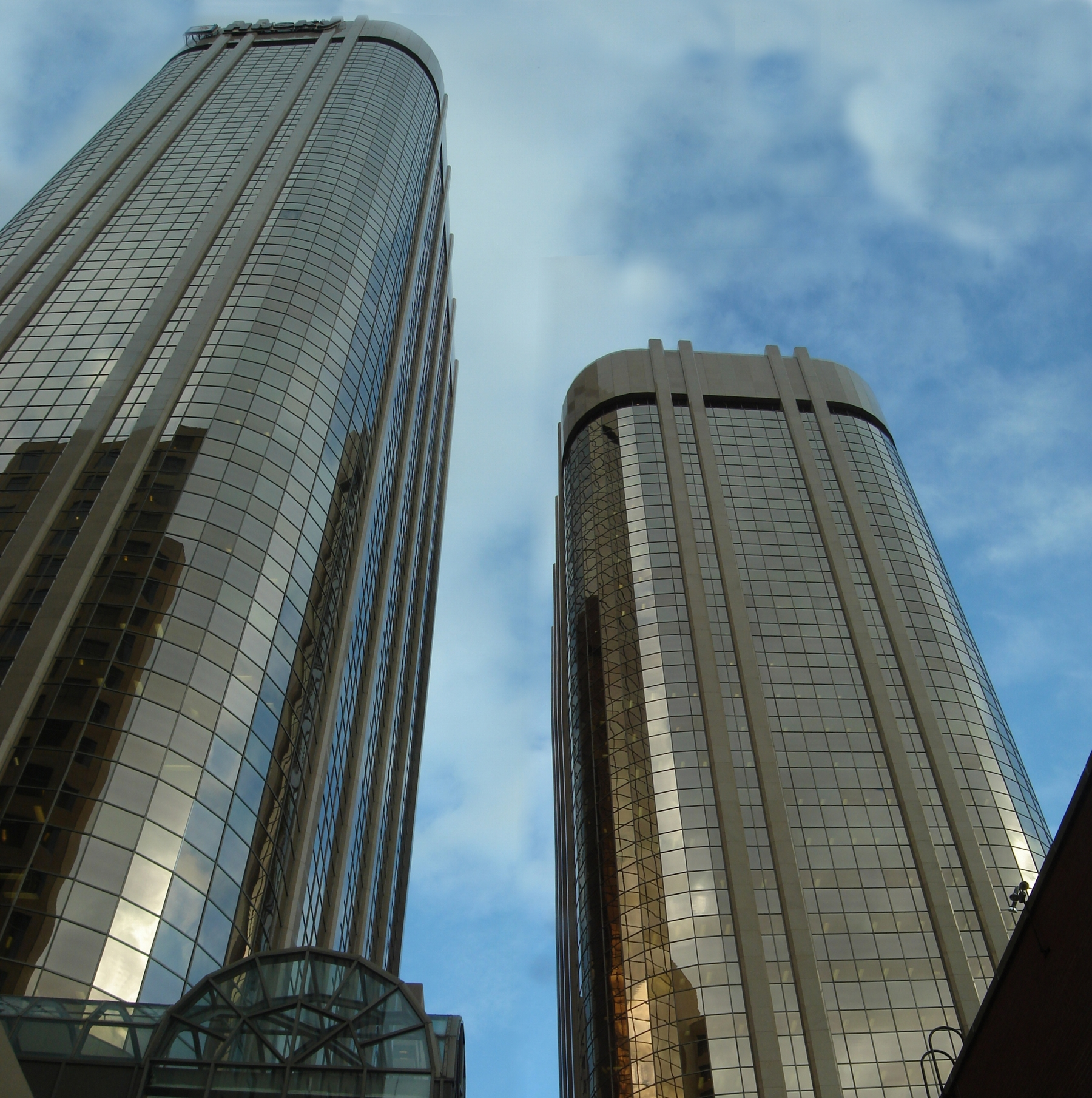 Western Canada Place, Calgary Alberta